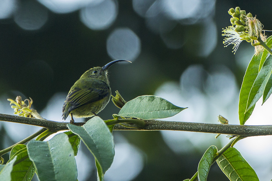 Sunbird Asity fem - Ranomafana - Madagascar_S4E8078